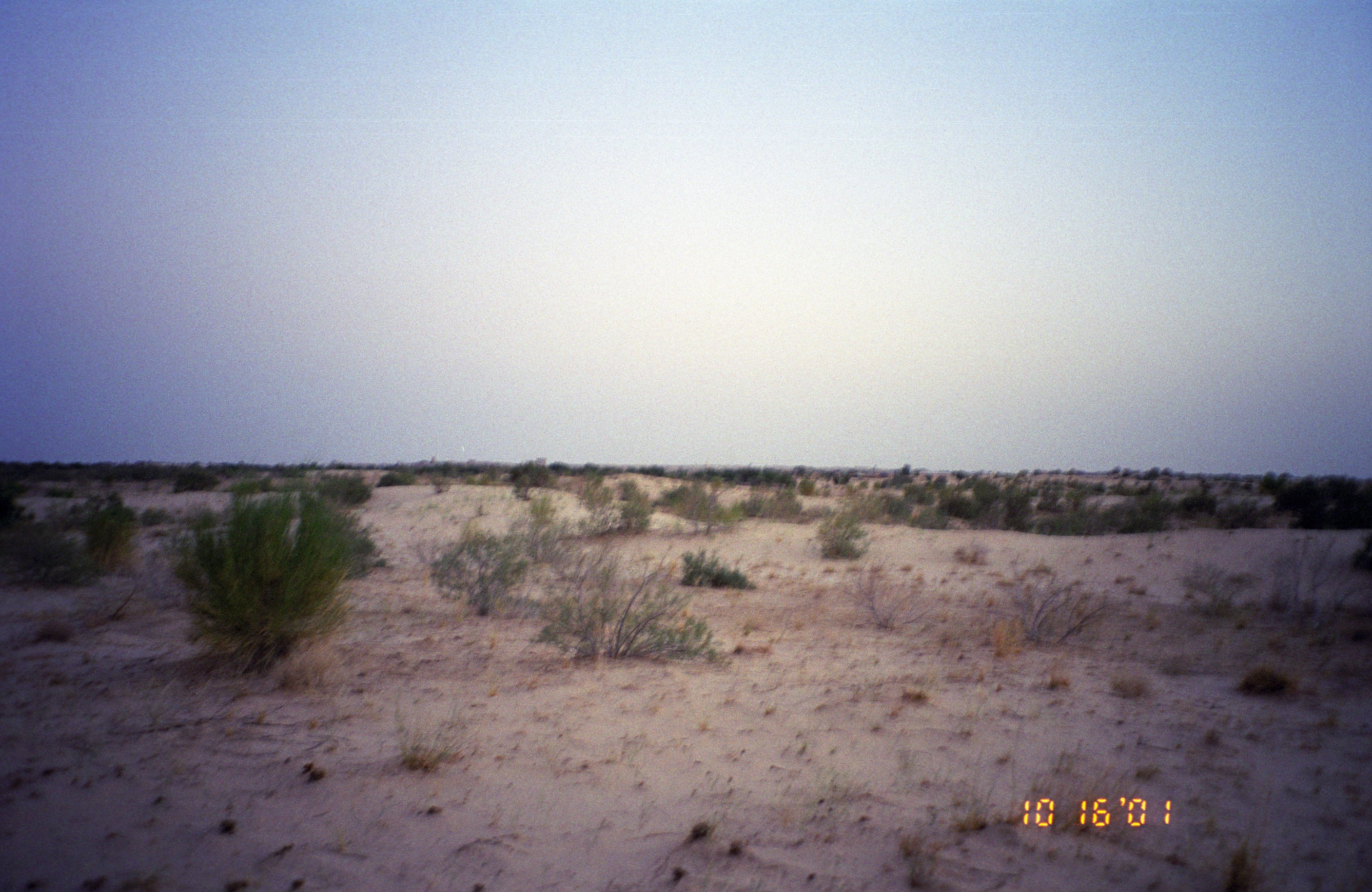 another view of the desert before it got too dark for photos